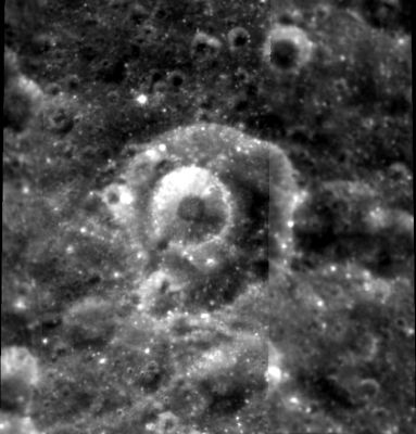 Kepínski lunar crater - Clementine image